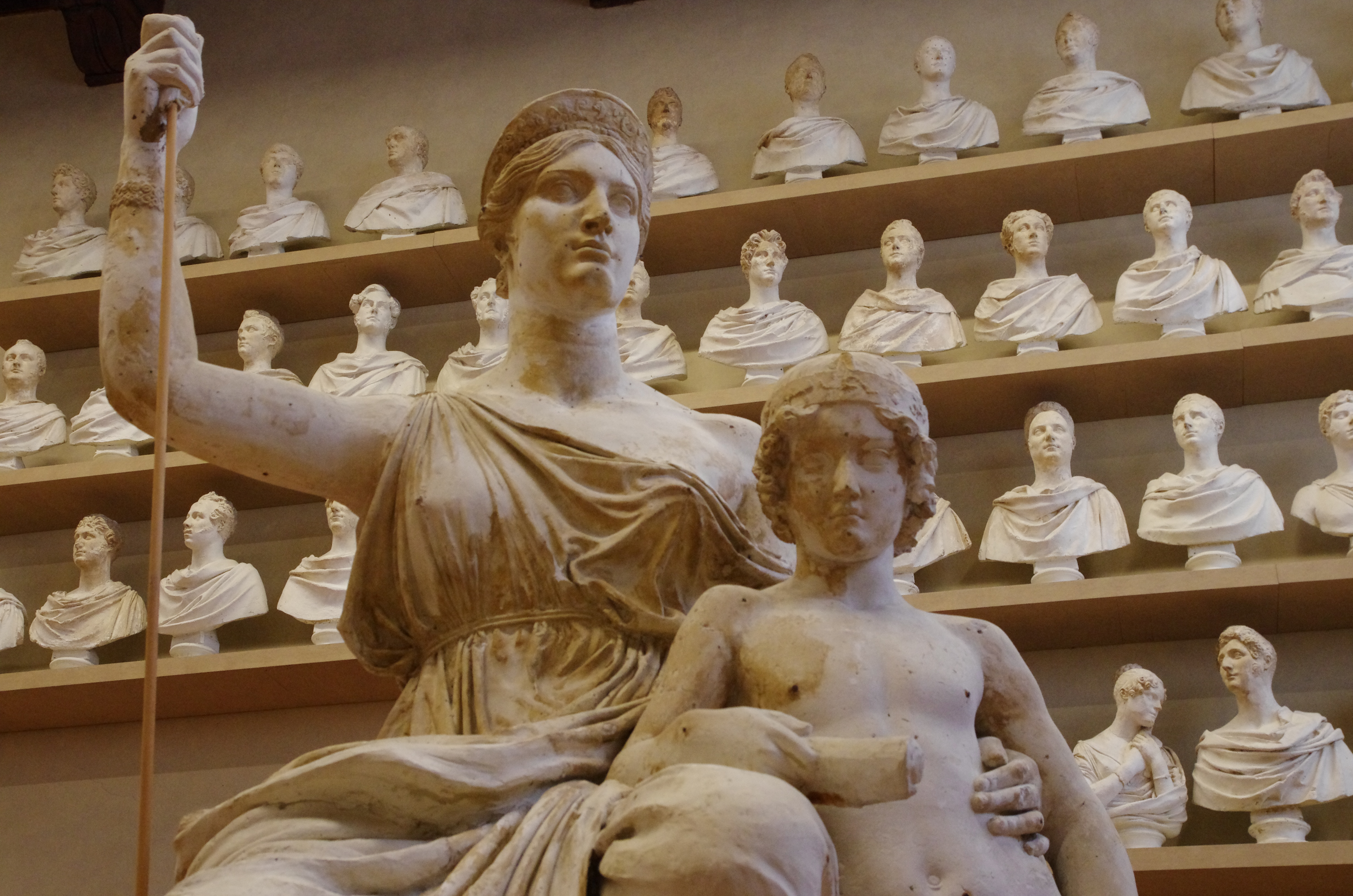 03 2015 Monument to Elisa Bonaparte Baciocchi, The Magnanimity of Elisa, Grand Duchess of Tuscany-Lorenzo Bartolini-Galleria dell'Accademia (Florence) Photo Paolo Villa FOTO9225